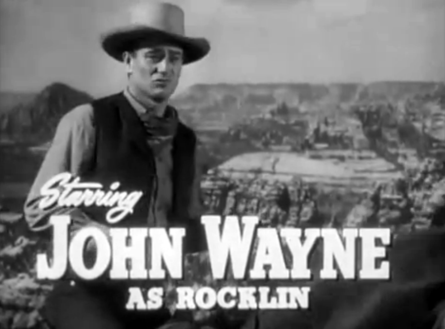 Tall in the Saddle trailer